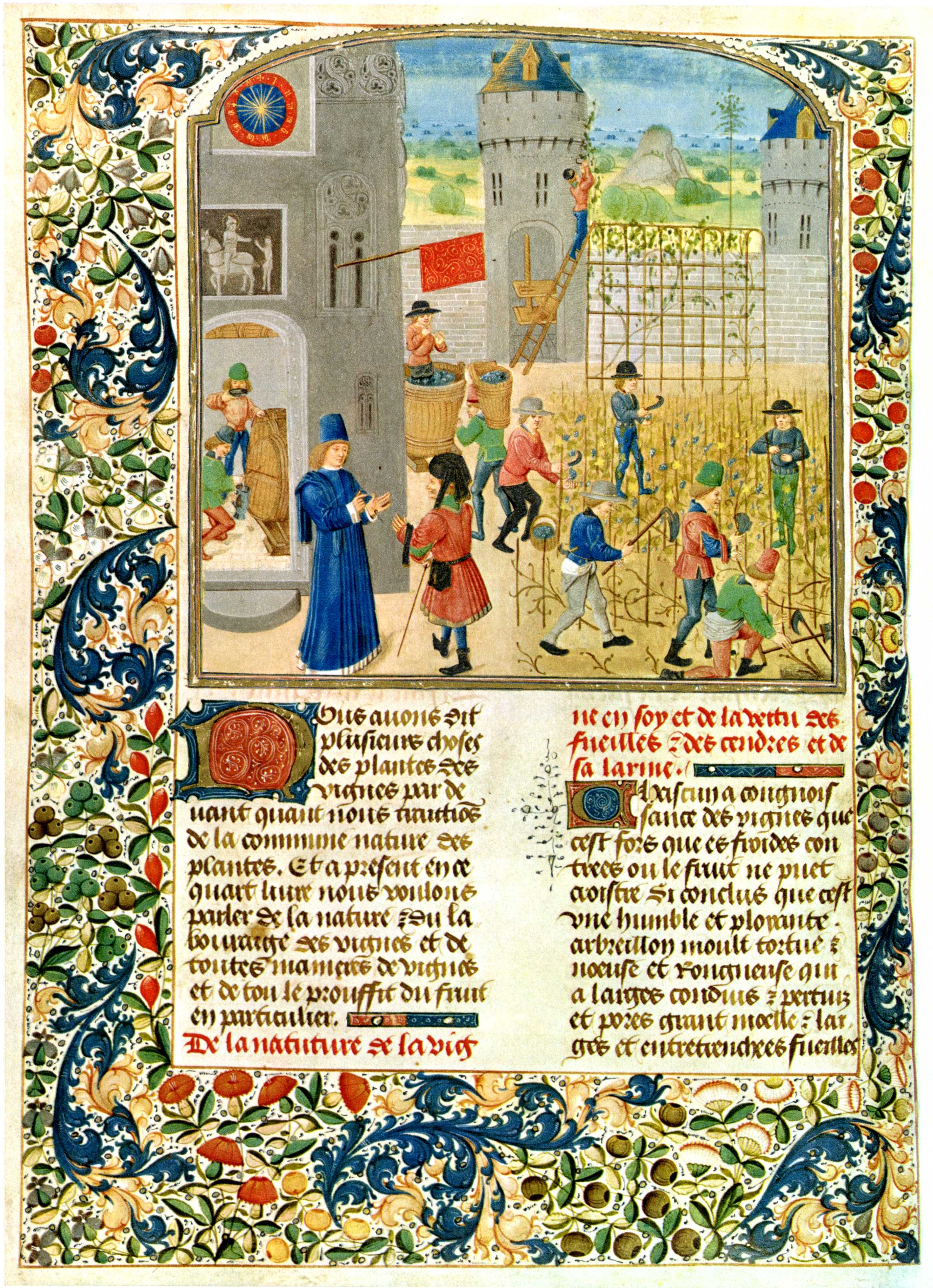 Working in the vineyard